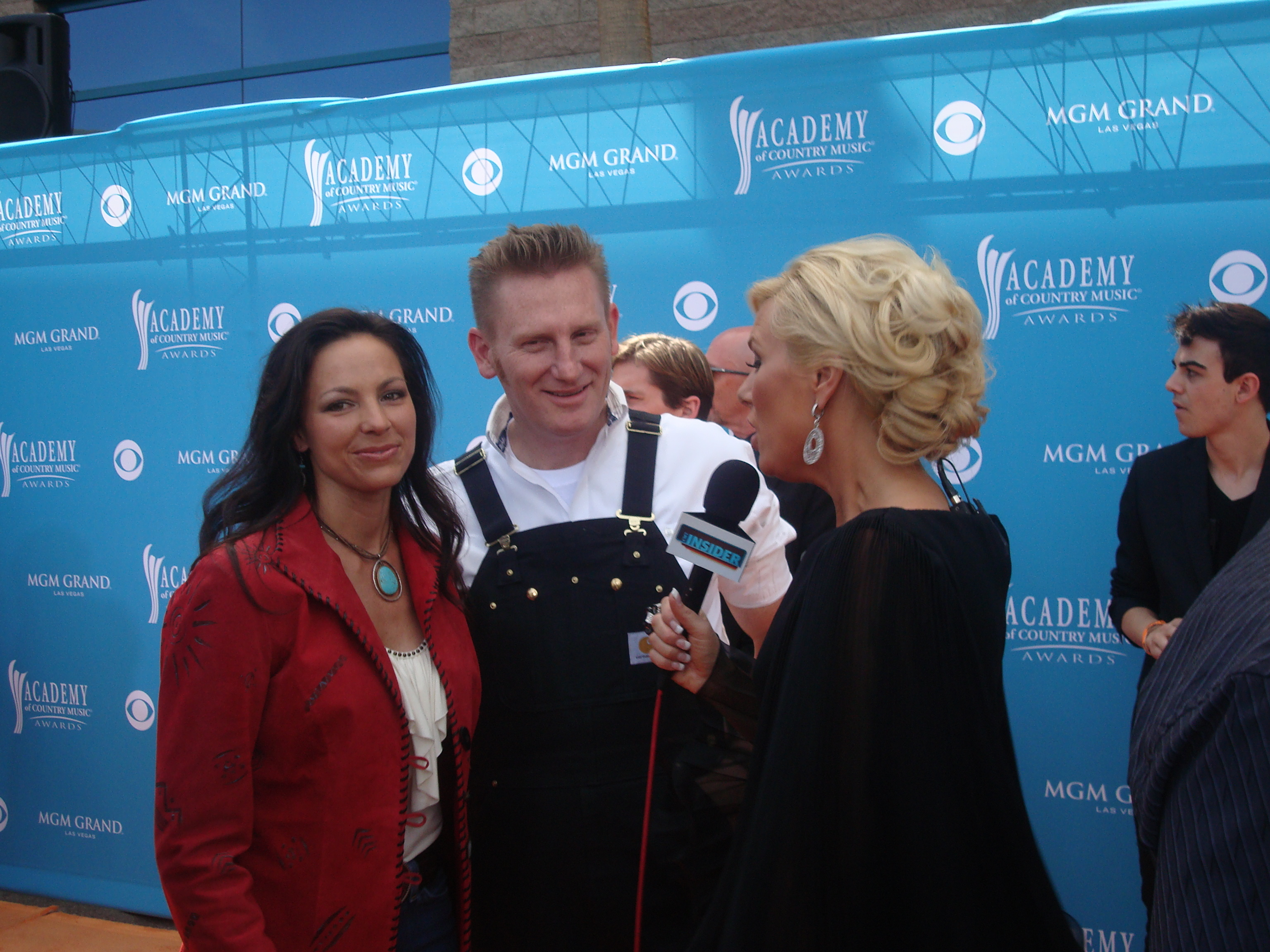 Country music duo Joey + Rory being interviewed by Allison Demarcus.